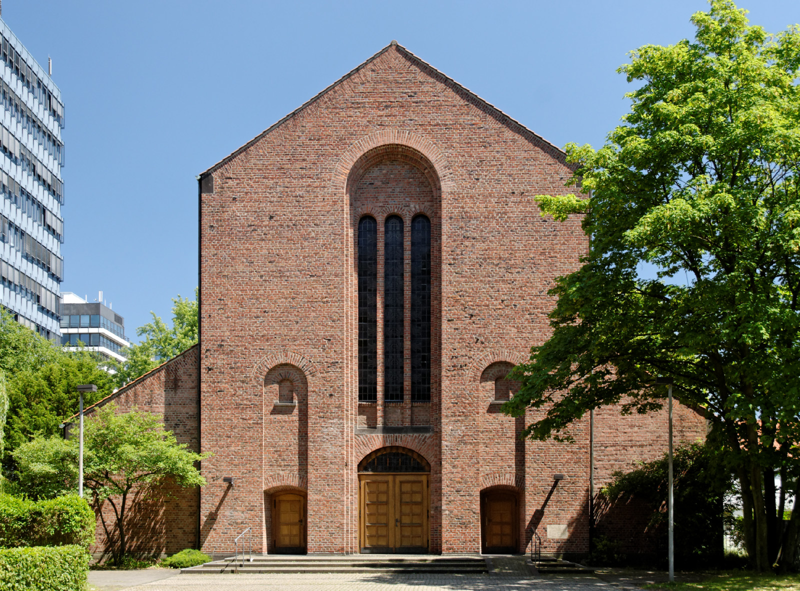 Saint Albertus Magnus in Düsseldorf-Golzheim, Germany